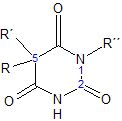 R-group position of Barbiturates